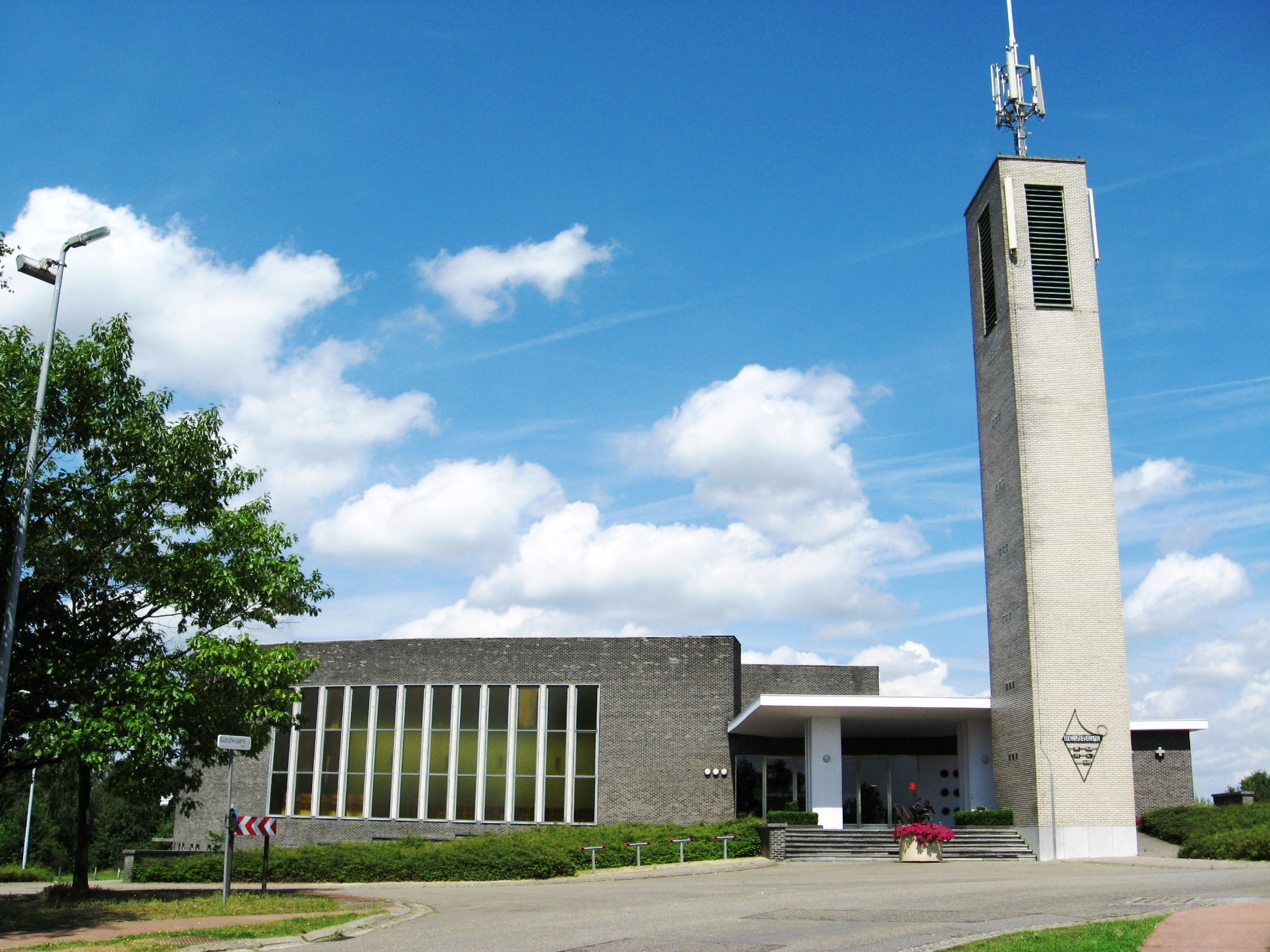 Church of Saint John Baptist de la Salle in Genk (Boxbergheide), Limburg, Belgium